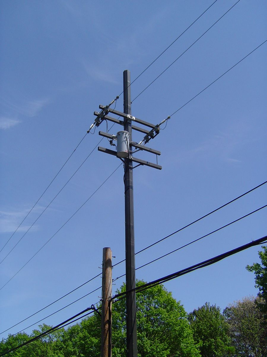 Standard Residential American Utility Pole, US. Electric wires seen on top with a Pole-Mounted Single-Phase Transformer and Telephone-Cable wires seen lower down on the pole